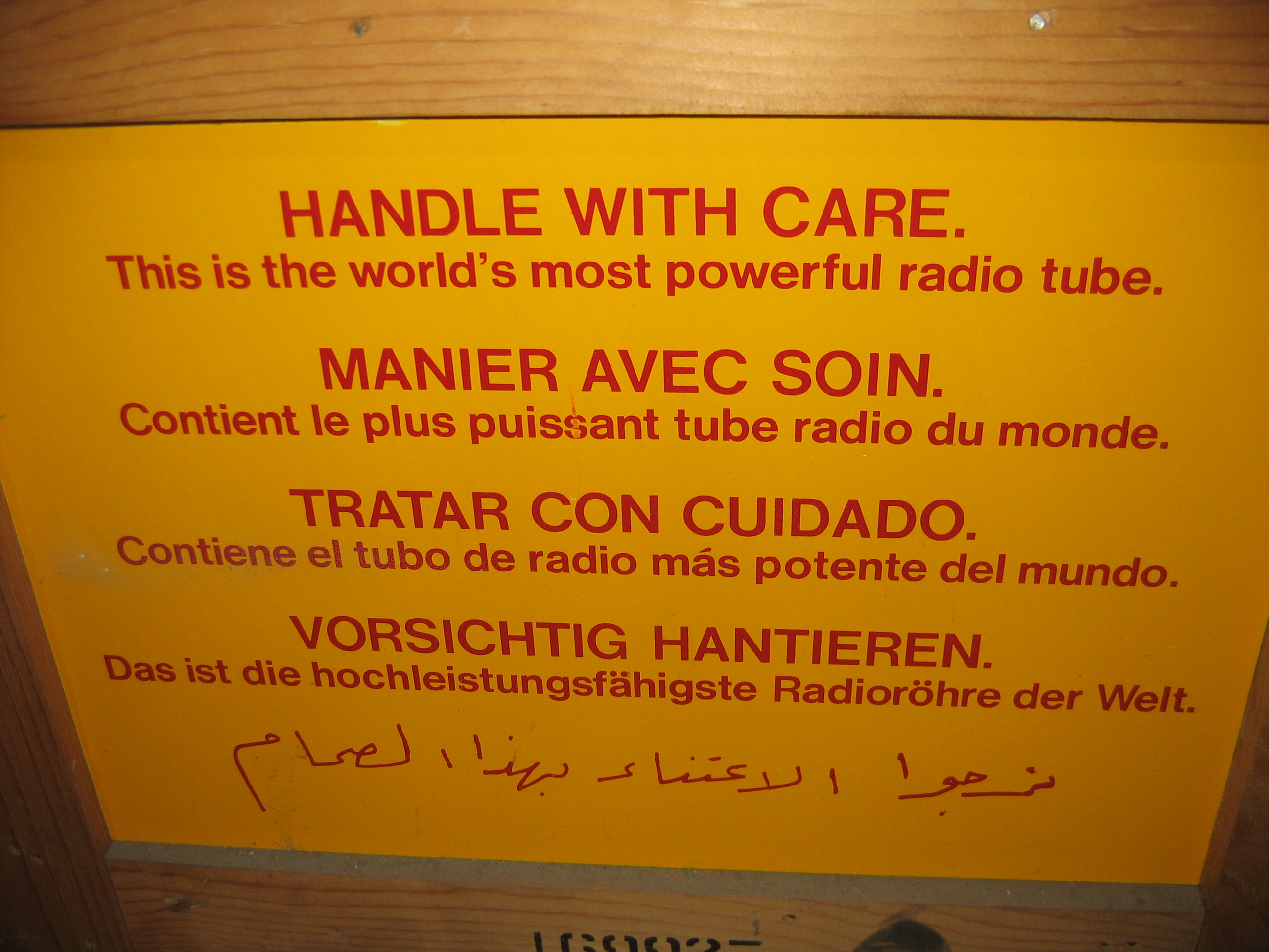 A box we found at the LBNL Bevatron. Didn't look inside, but there were some large light bulbs sitting on top so that was the next best thing.